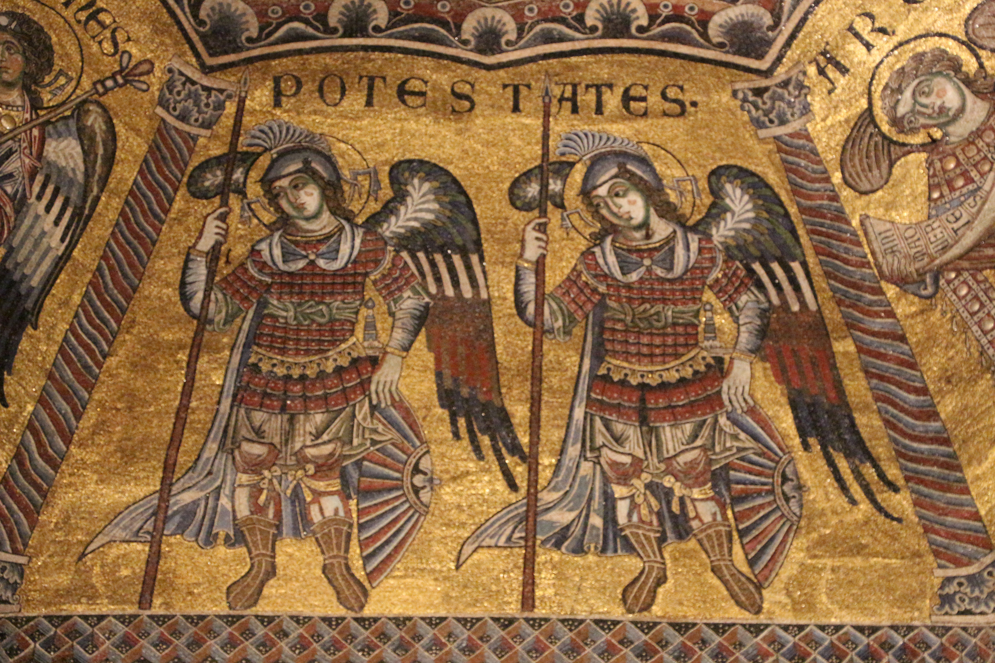 Angelic hierarchy in the Florence Baptistry